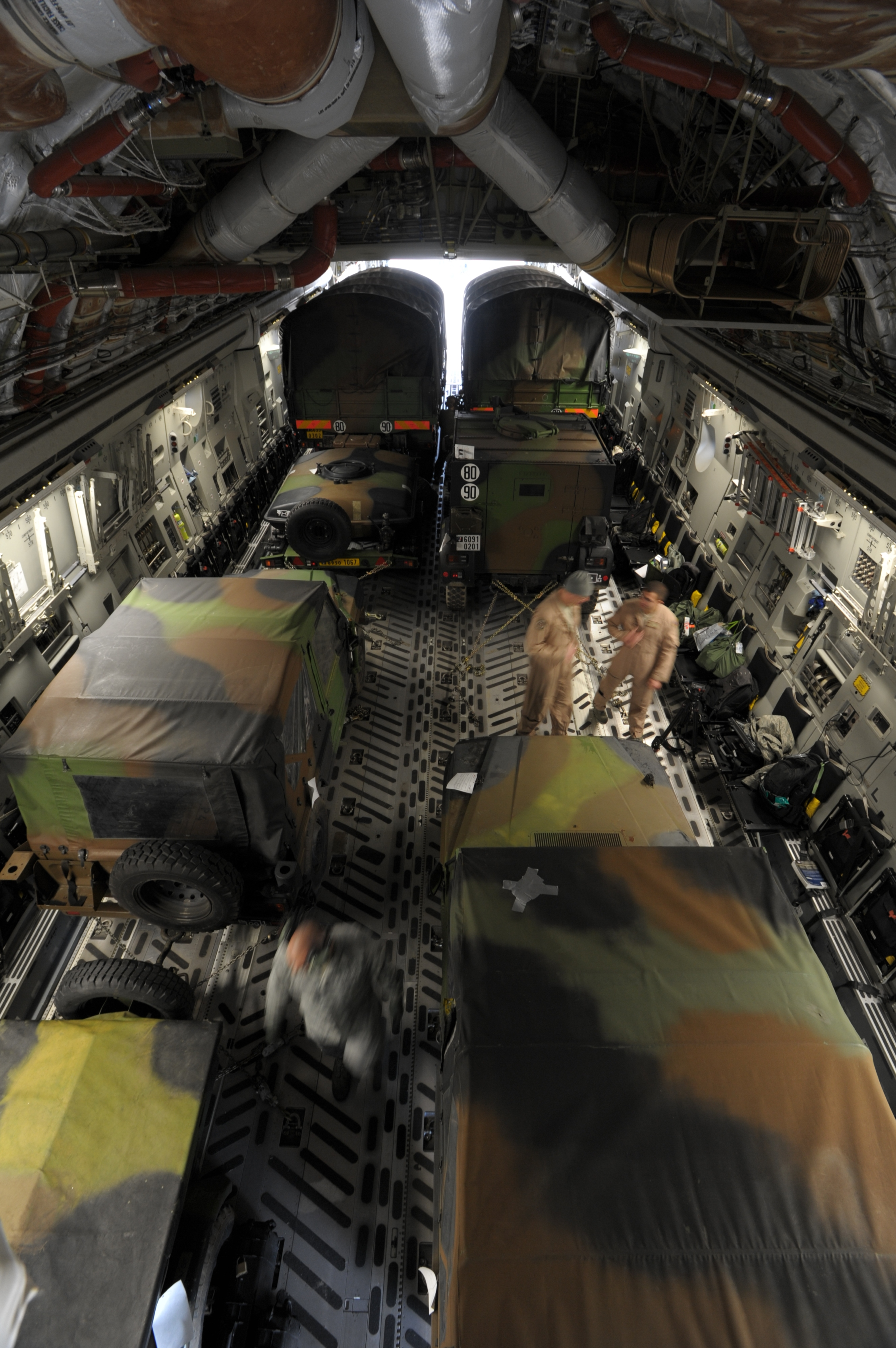 The United States Air Force began transporting French soldiers and military equipment January 21, 2013, from Istres, France, to Bamako, Mali, in support of French military operations in Mali. C-17 Globemaster III aircraft, operating under the control of U.S. Africa Command, are moving a French mechanized infantry battalion over the next several days.